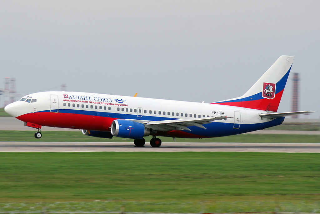 Atlant-Soyuz Airlines Boeing 737-300 VP-BBM departs Moscow-Vnukovo airport